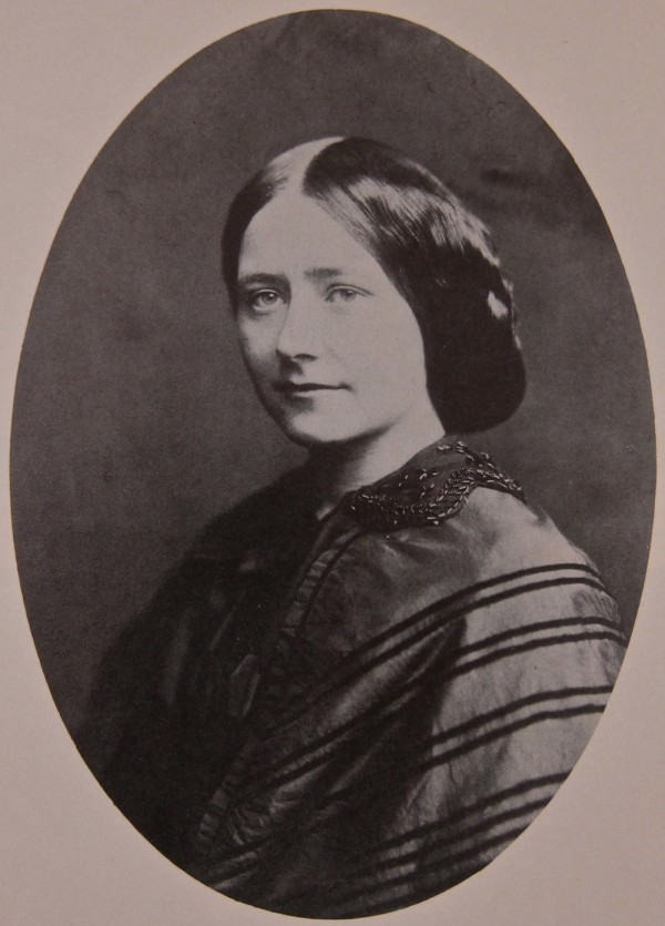 Ellen Ternan, the young actress who became Charles Dickens's mistress